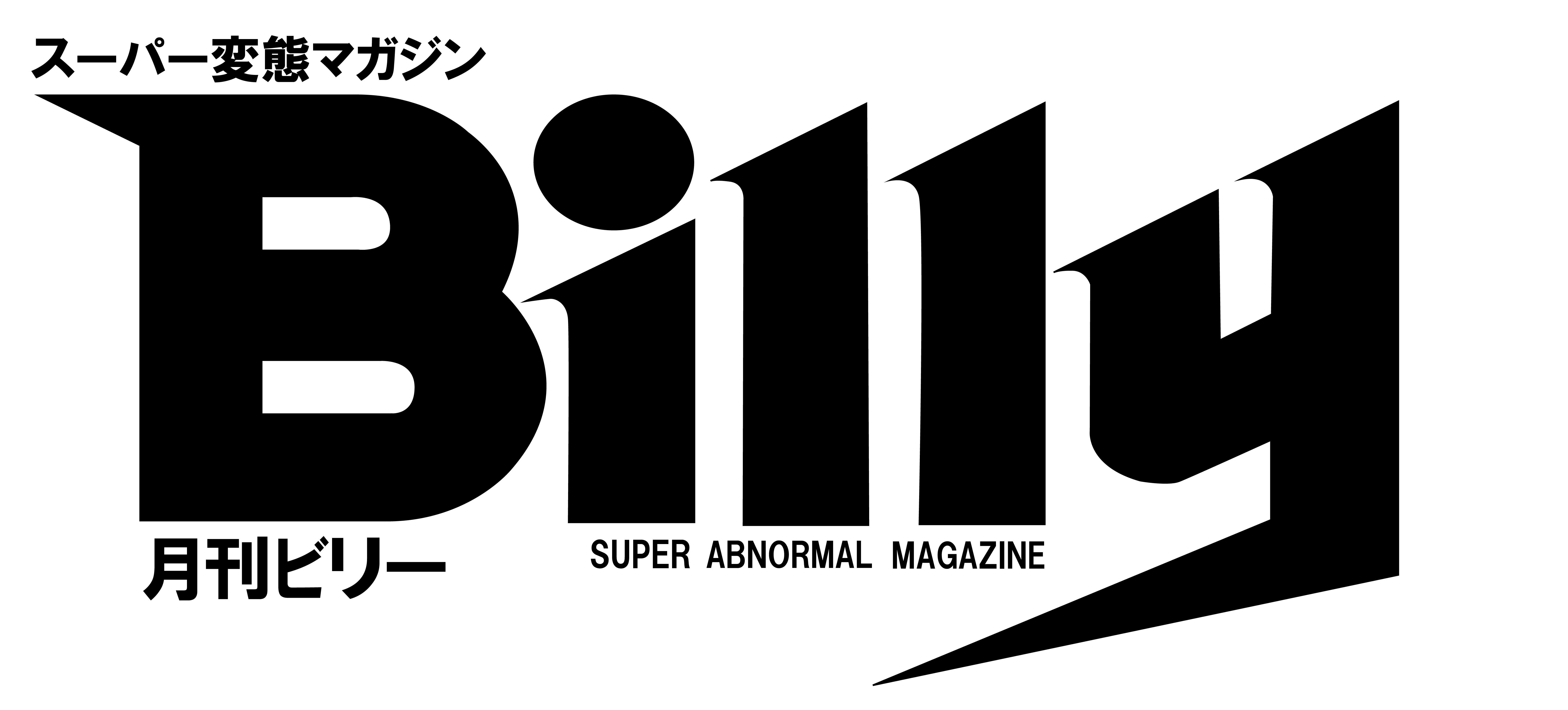 logo, created in Adobe Illustrator.